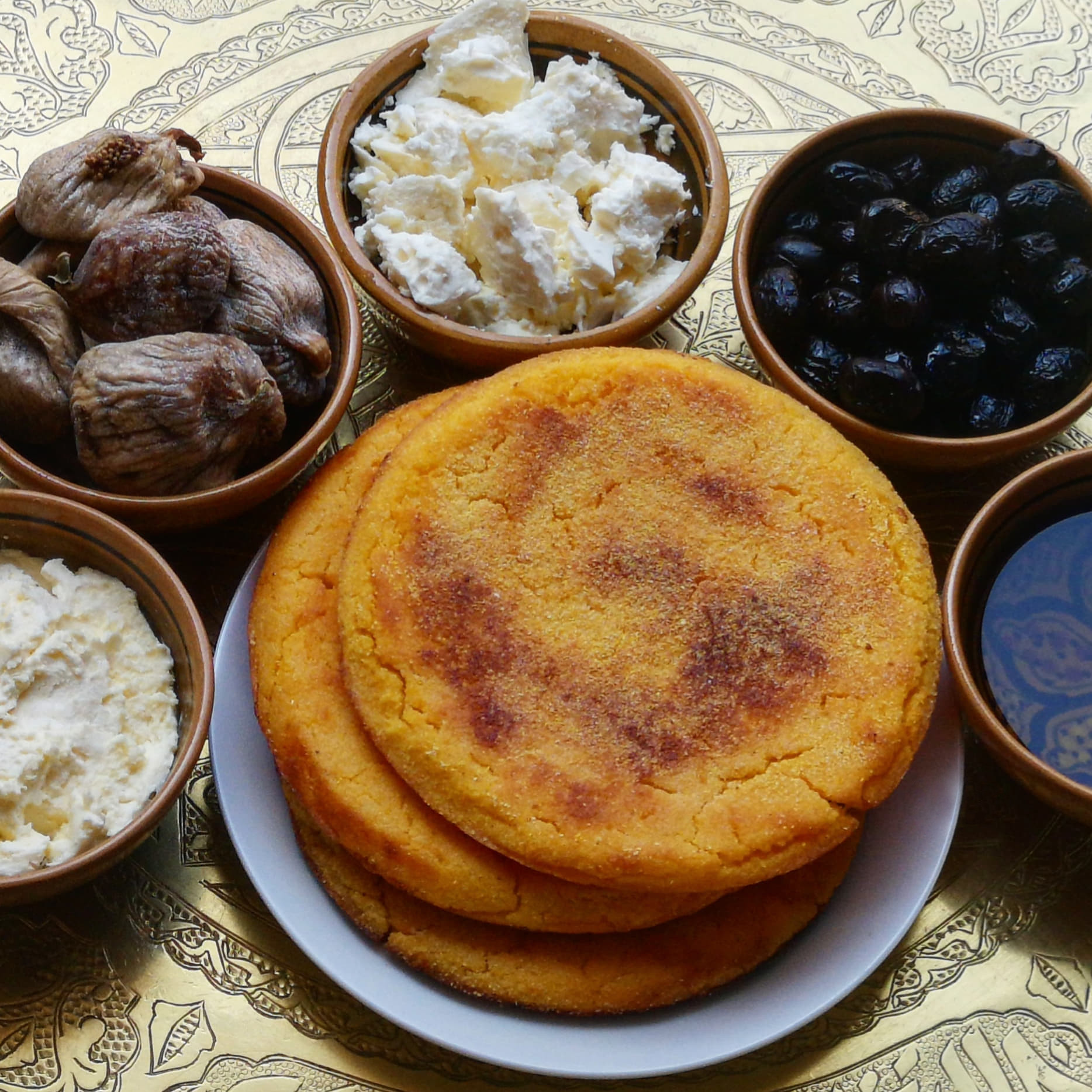 Harcha/Mbesses Algerian semolina pancake